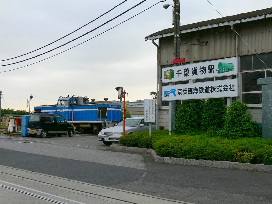 Keiyo Rinkai Railway Chiba Freight Station.